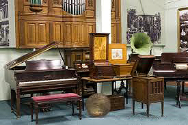 Gallery 1 Musical Museum